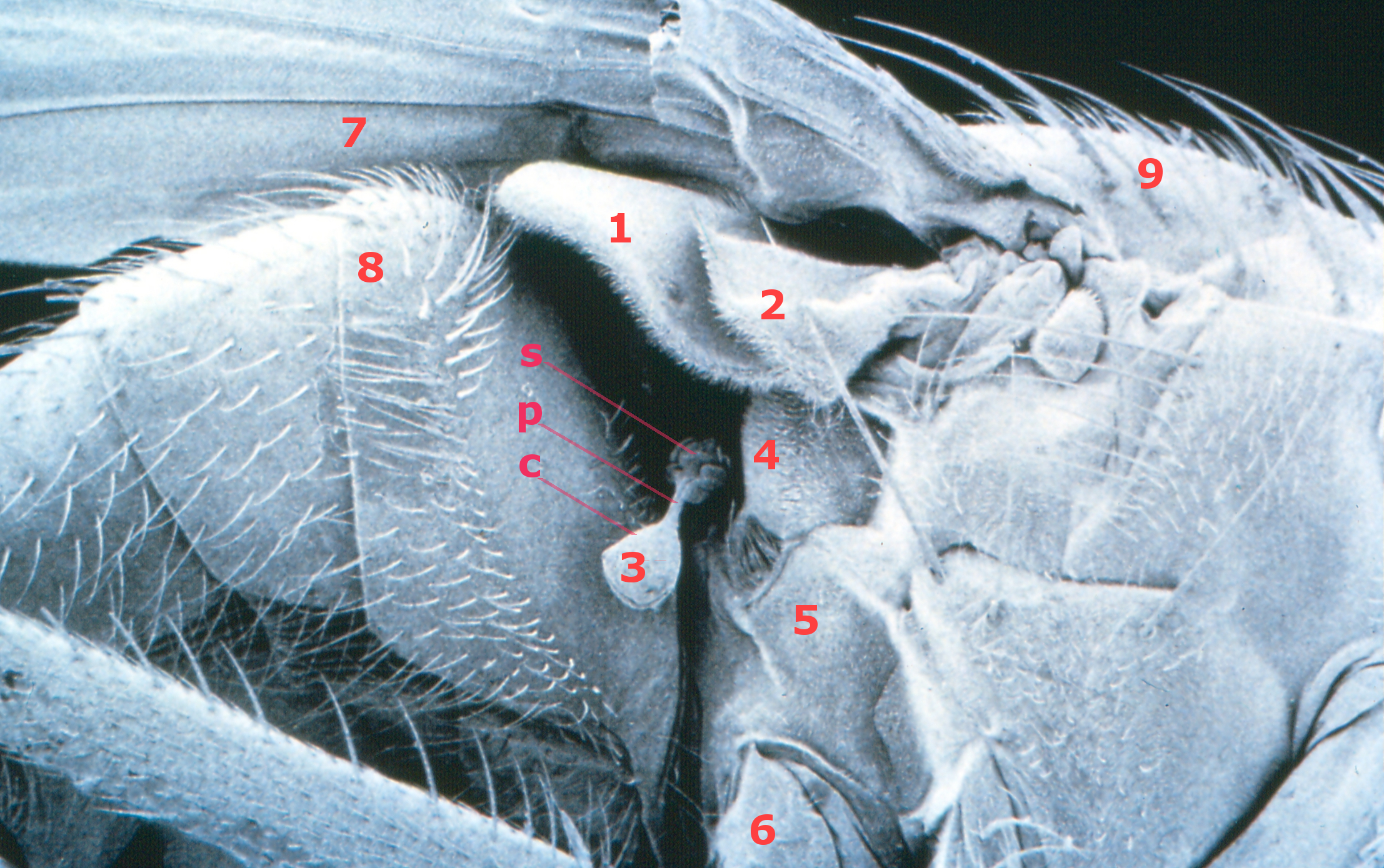 Electron micrograph of fly haltere and surrounding structures 1: calyptra (squama) 2: upper calypter (antisquama) 3: haltere 4: mesopleuron 5: hypopleuron 6: coxa 7: wing 8: abdominal segment 9: mesonotum c: capitellum of haltere p: pedicel of haltere s: scabellum of haltere Electron micrograph of fly haltere and surrounding structures annotated and derived from File:CSIRO ScienceImage 3237 Fly haltere.jpg CSIRO Creative Commons Attribution 3.0 Unported